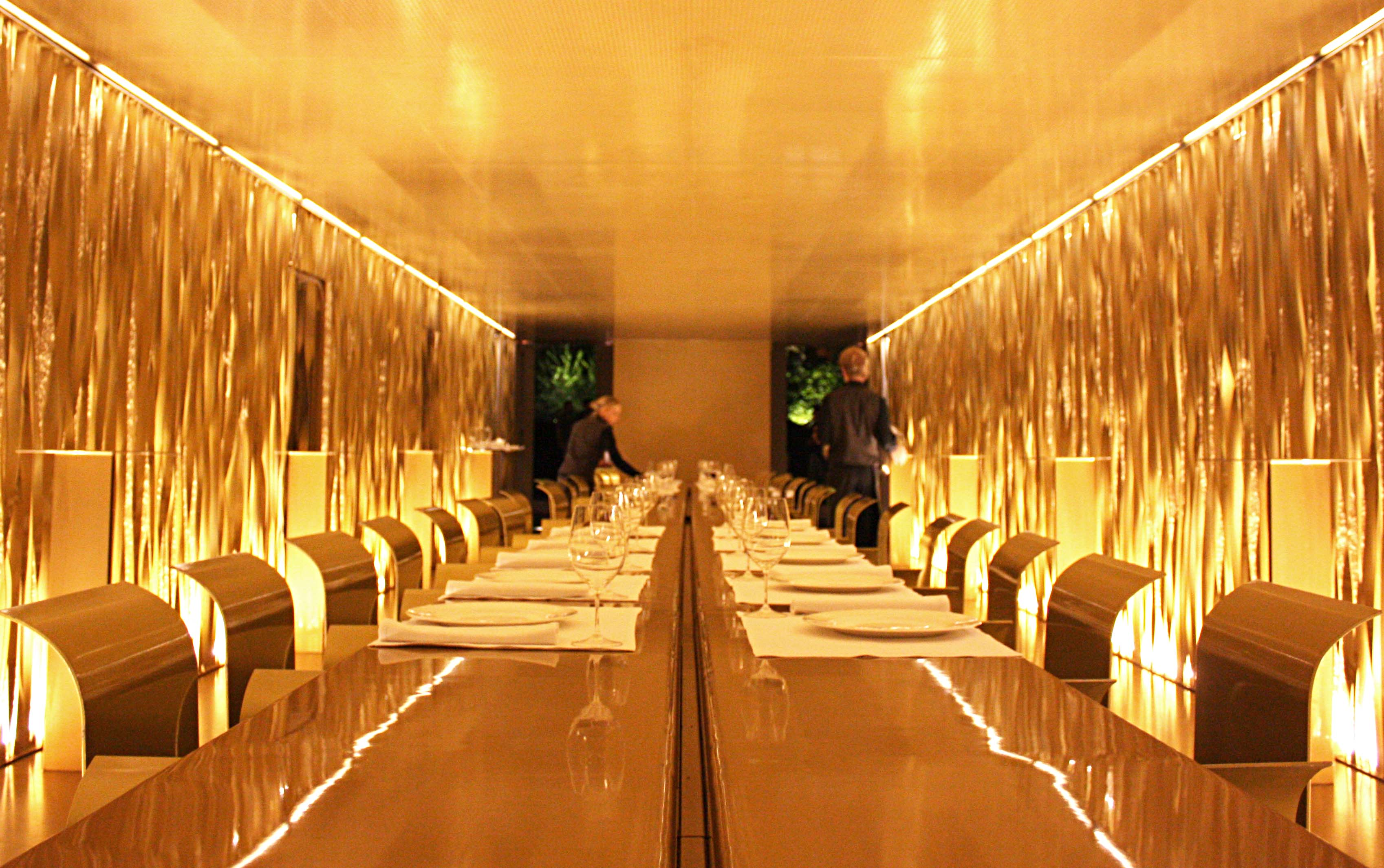 View of "Les cols" Restaurant. RCR arquitectes. Olot. Catalunya.